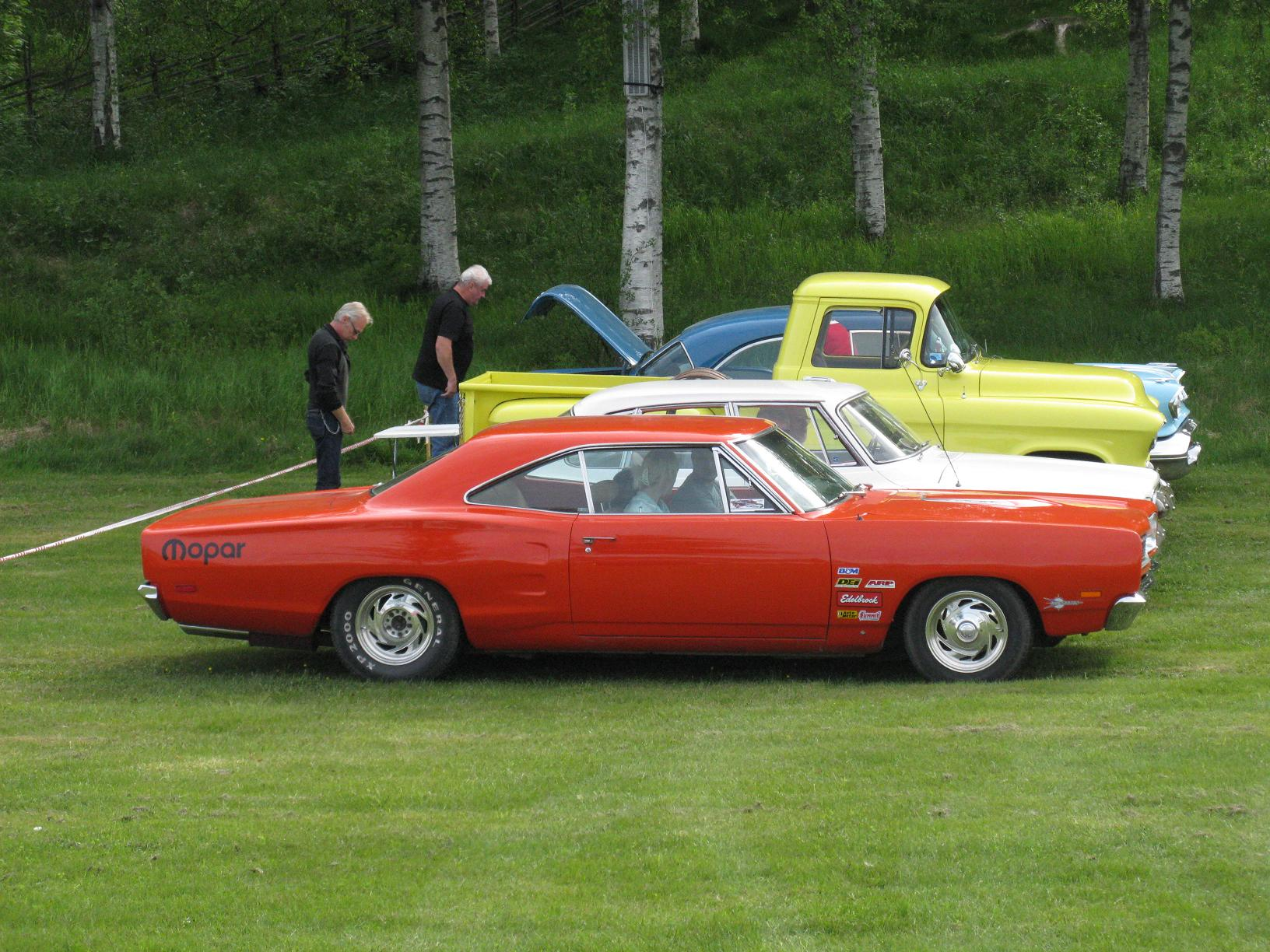 Plymouth GTX